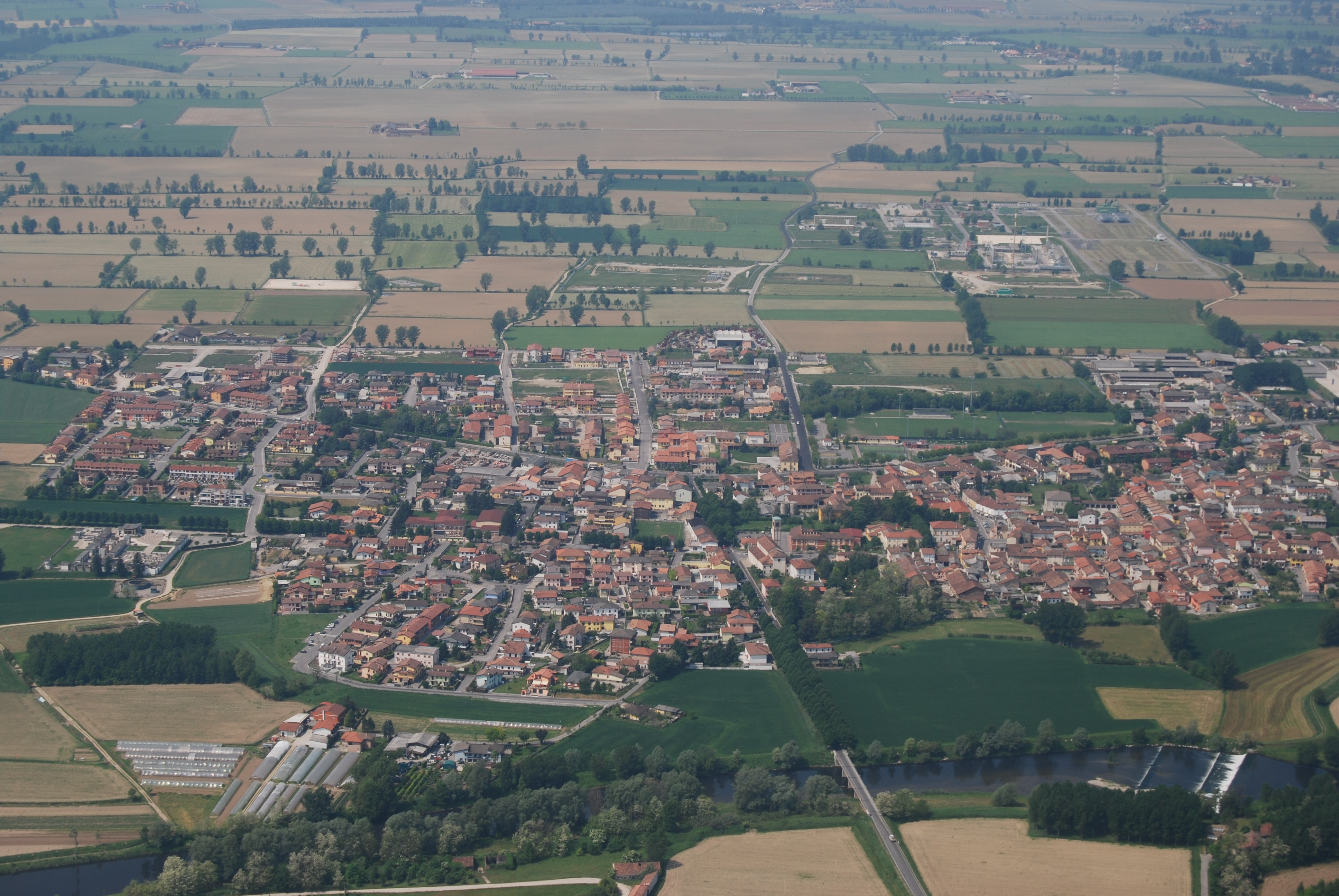 Air view of Sergnano